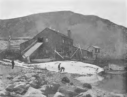 The whaling station at Rolvsøya, Norway. Photo bei Richard Friese. Helgoland expedition 1898.